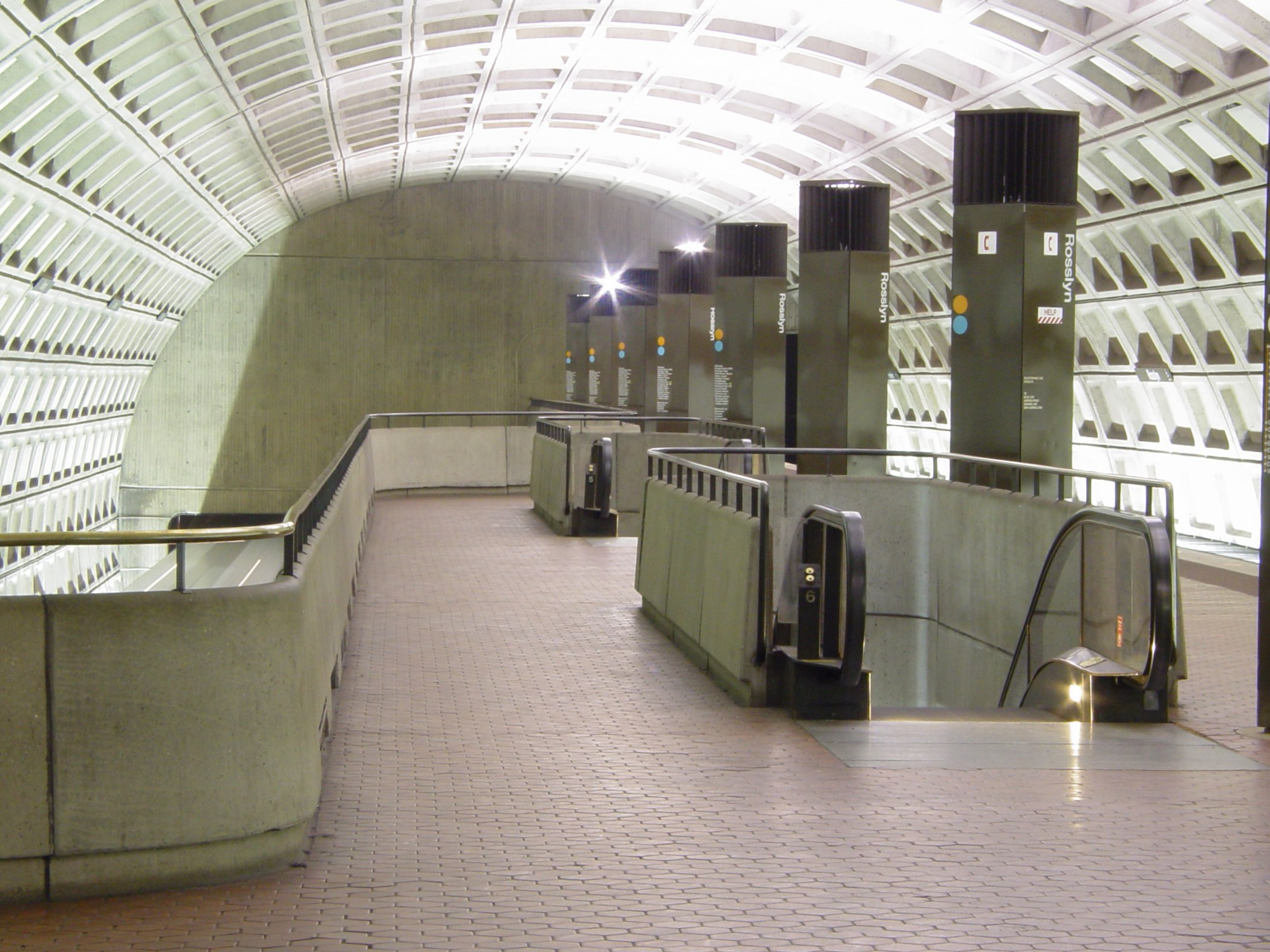 Upper level of Rosslyn station, showing upper level platform pylons.